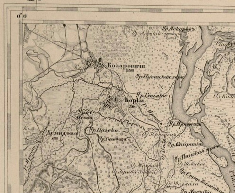 Kozarovychi village on the topographic map of the Russian Empire (Shubert's map), R22L09, 1868